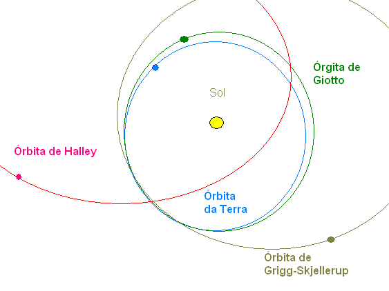 A diagram showing the orbits of Halley's Comet (pink), Comet Grigg-Skjellerup (tan), ESA's Giotto probe (green) and the Earth (blue) around the Sun.